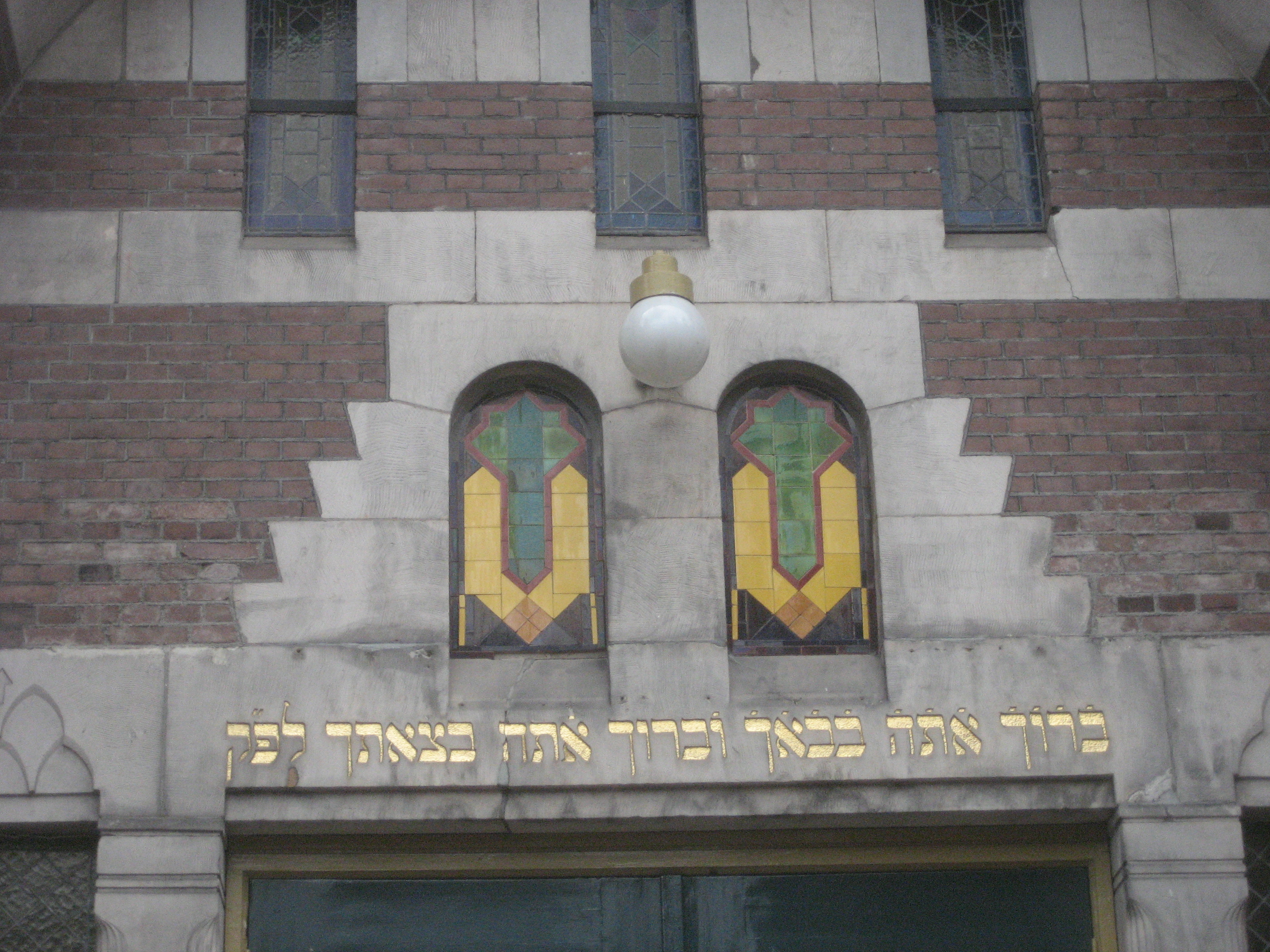 Synagogue, Folkingestraat 60, Groningen (the Netherlands). Text in Hebrew (transl.): Blessed are thou entering and leaving.